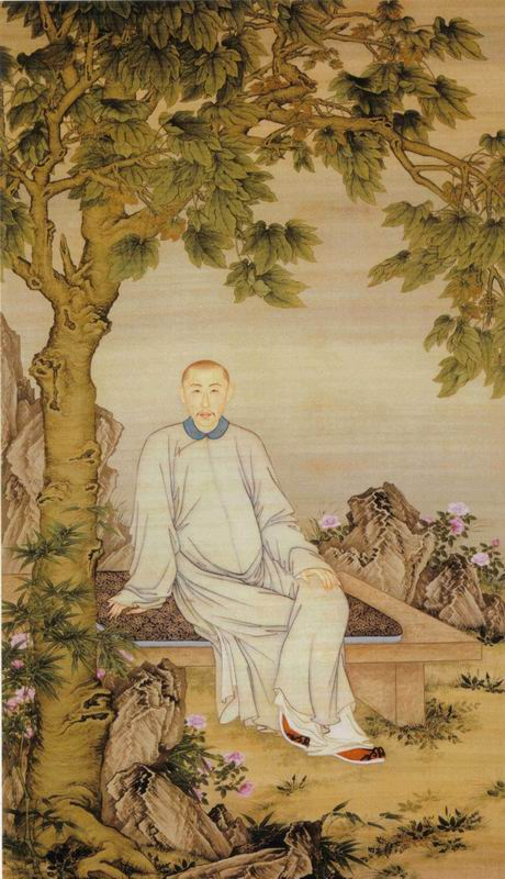 Yinli (1697-1738) was the 17th son of Emperor Kangxi. Collection of the Palace Museum in Beijing.